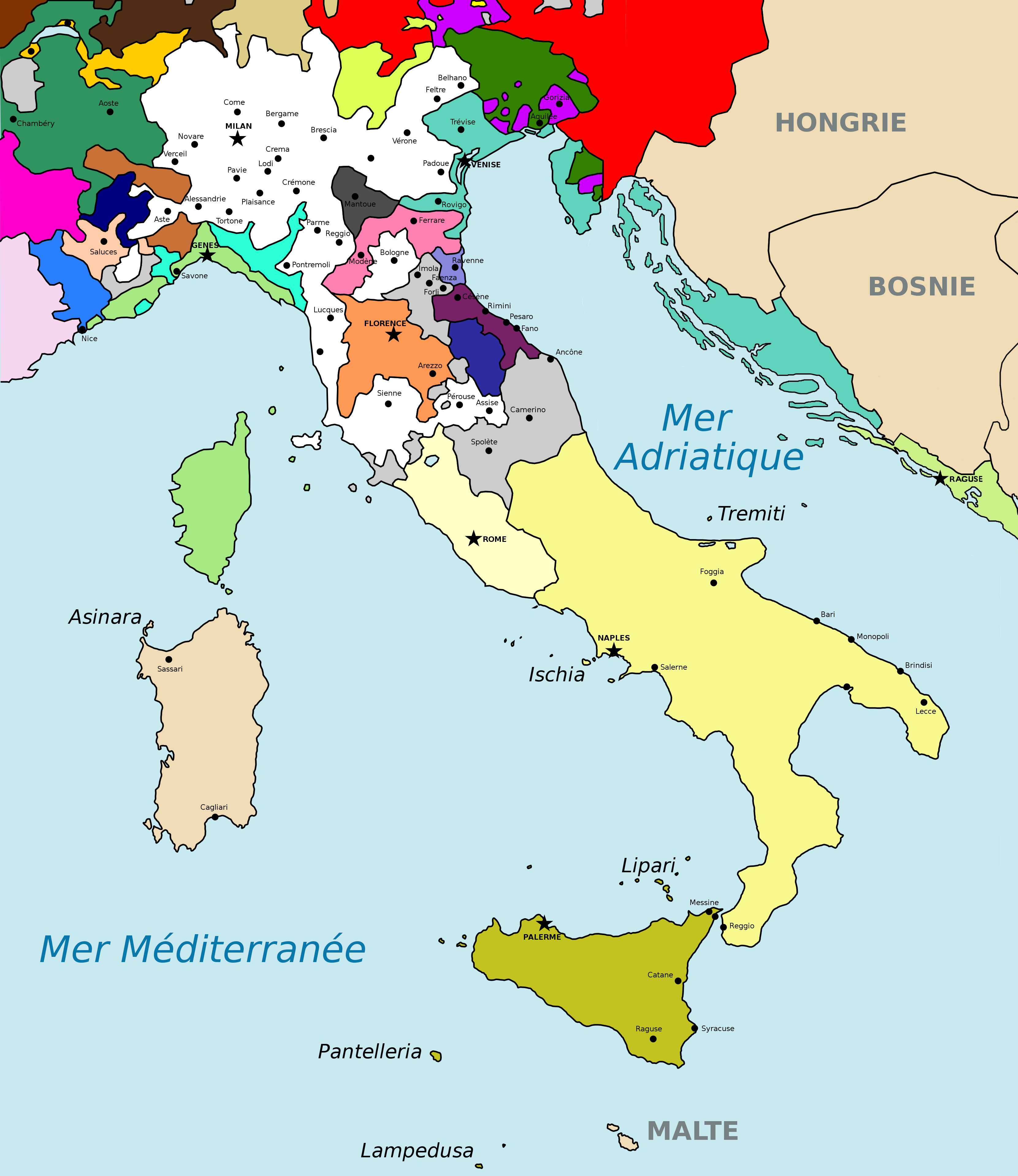 Rectified map of Italy (1402) since Pramzan and Augusta89 but with the dalmatian coast (see discussion file)